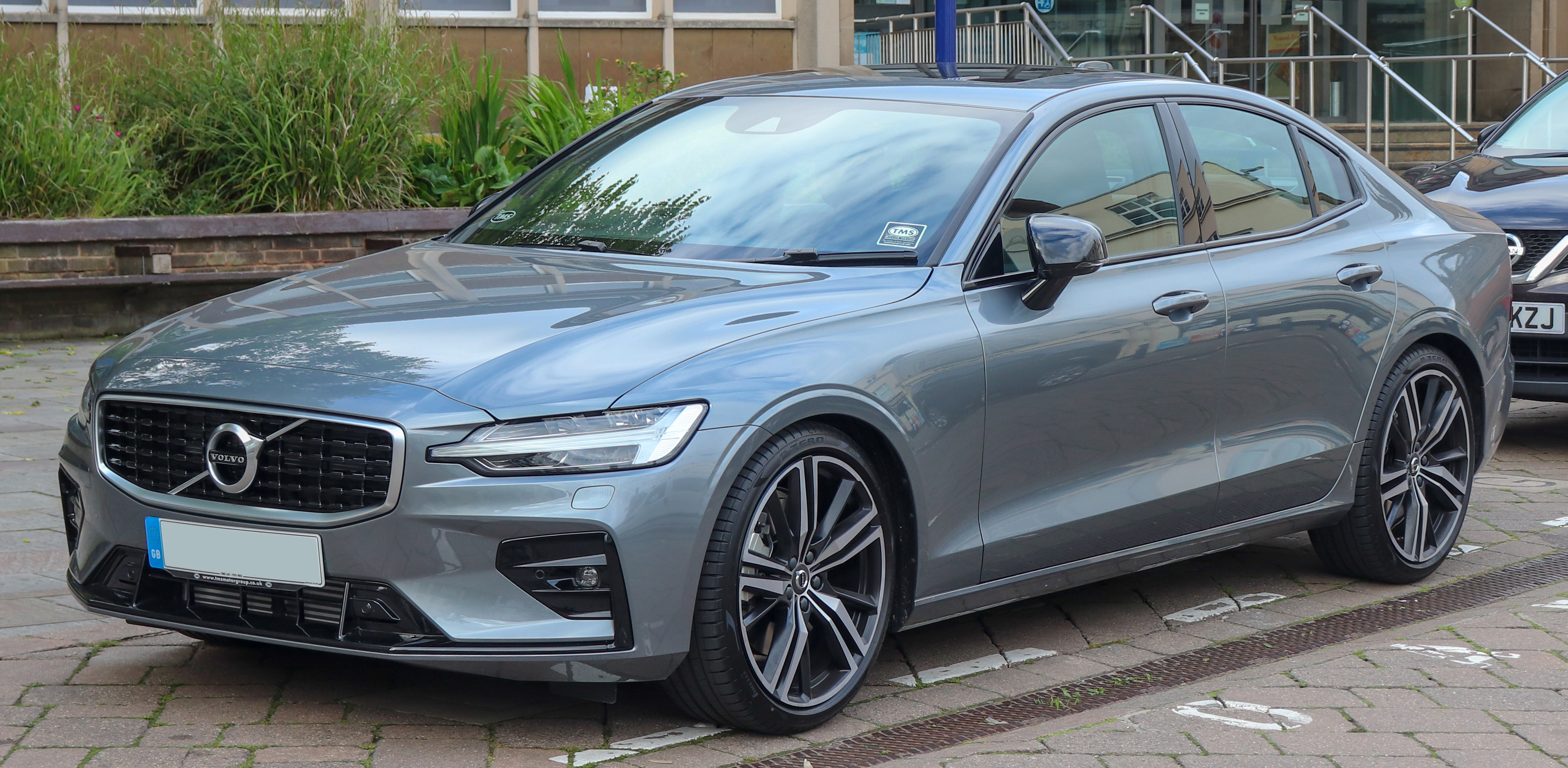 2019 Volvo S60 R-Design Edition T5 Automatic 2.0 Front Taken in Warwick